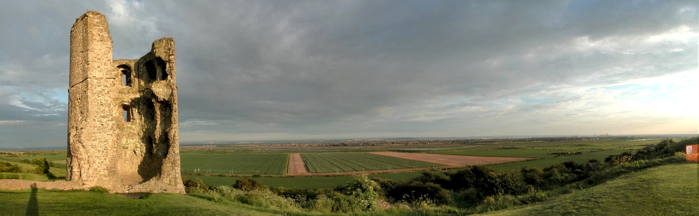 Hadleigh Castle Panorama